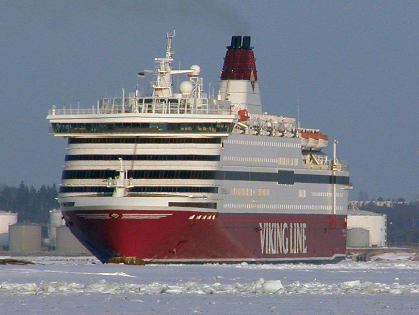 MS Cinderella in Helsinki, Finland in winter 2003